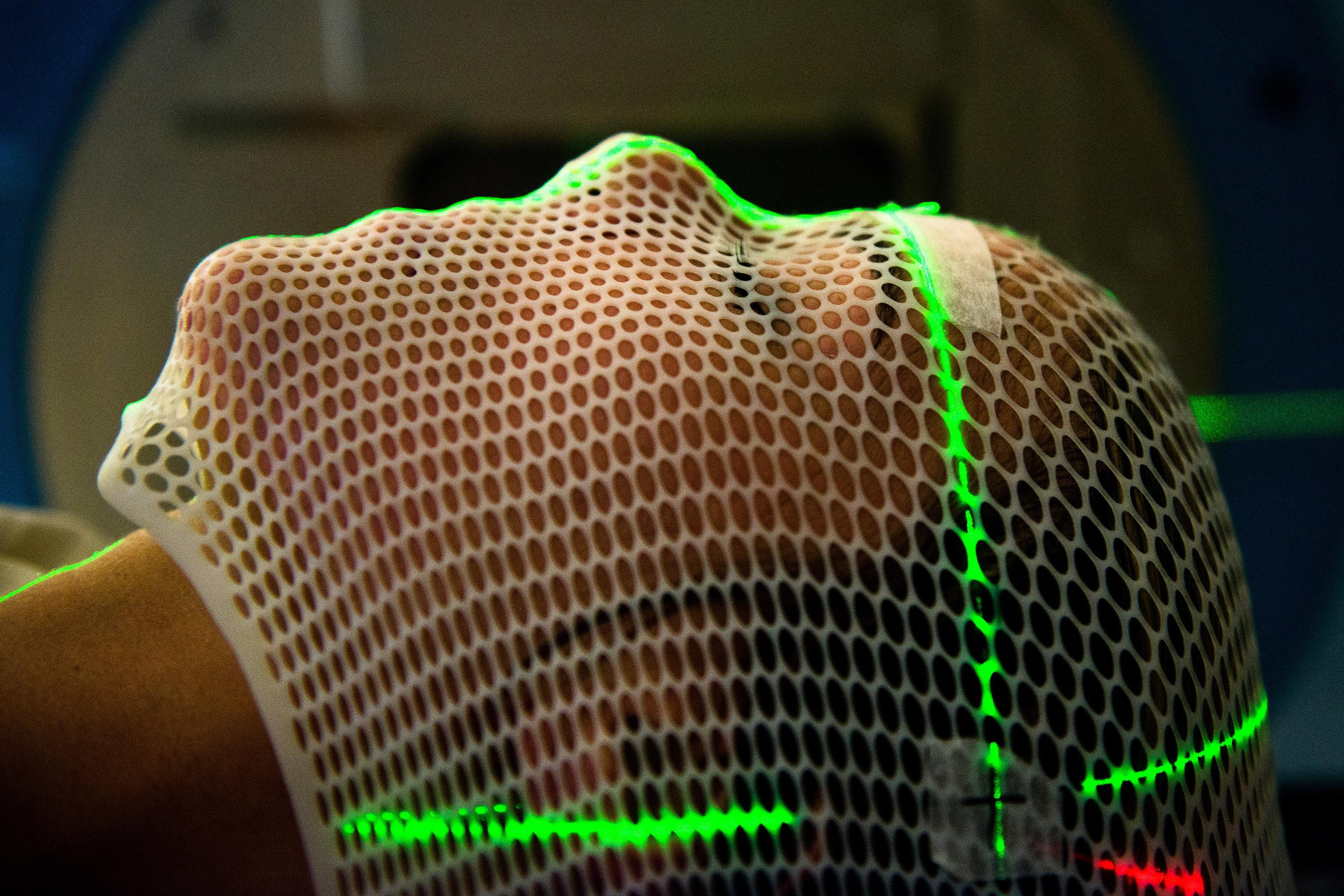 Capt. Candice Adams Ismirle waits to receive a radiation treatment Oct. 22, 2013, at Walter Reed National Military Medical Center in Bethesda, Md. After approximately two years in remission, Ismirle recently learned her cancer had returned. (U.S. Air Force photo/Staff Sgt. Russ Scalf)